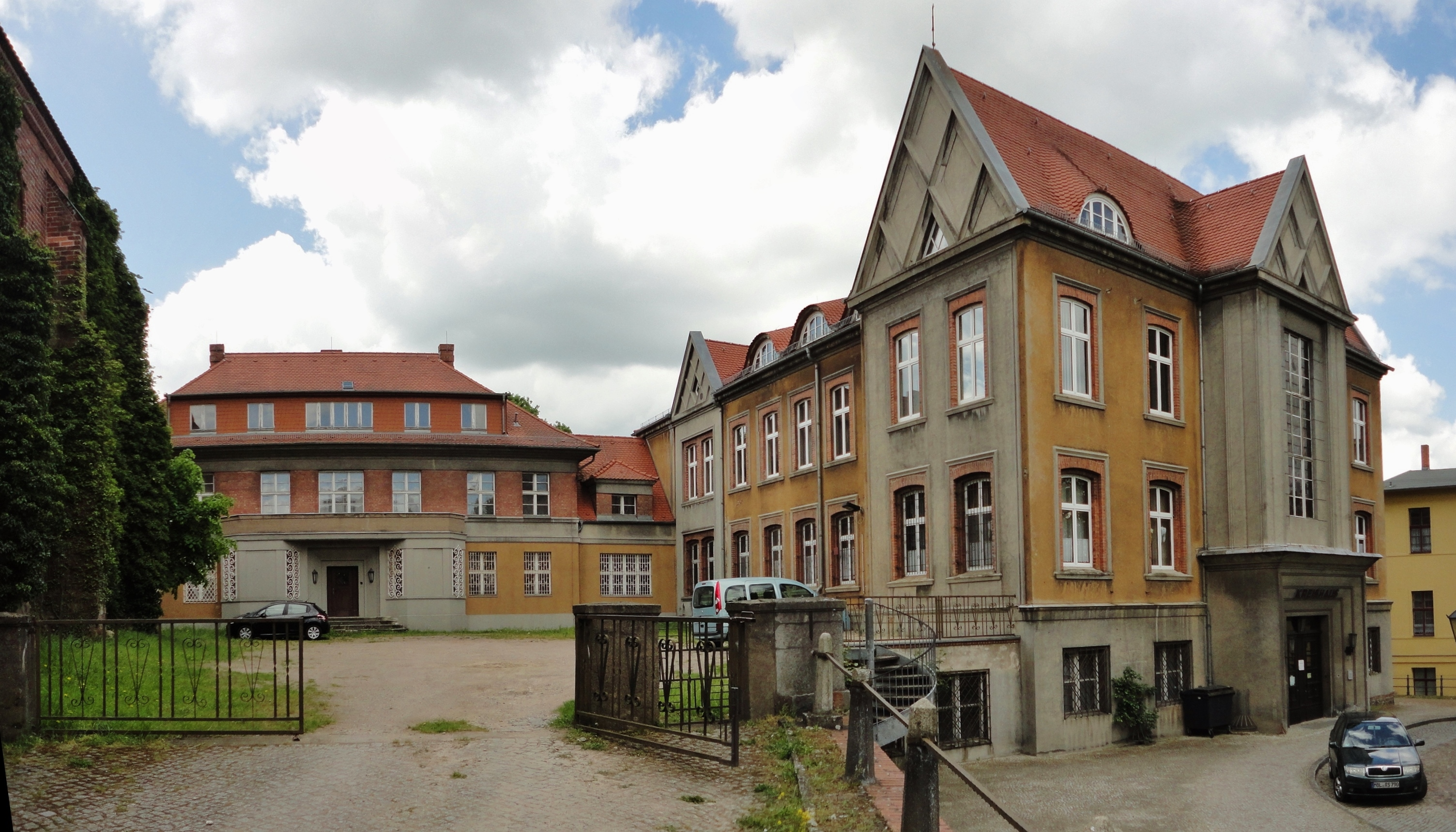 Former district government of Bad Freienwalde, Brandenburg state, Germany